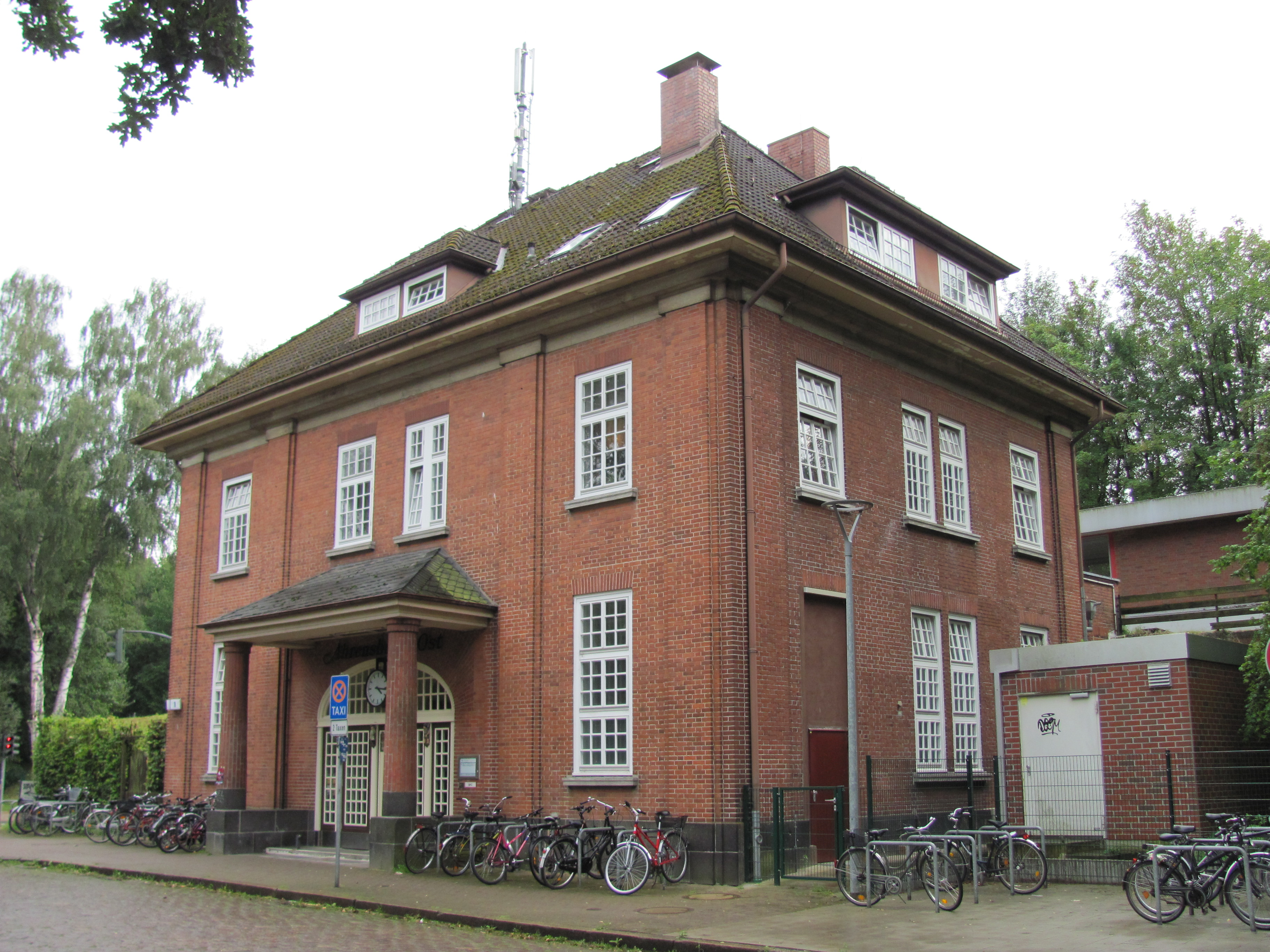 U-Bahn station Ahrensburg Ost